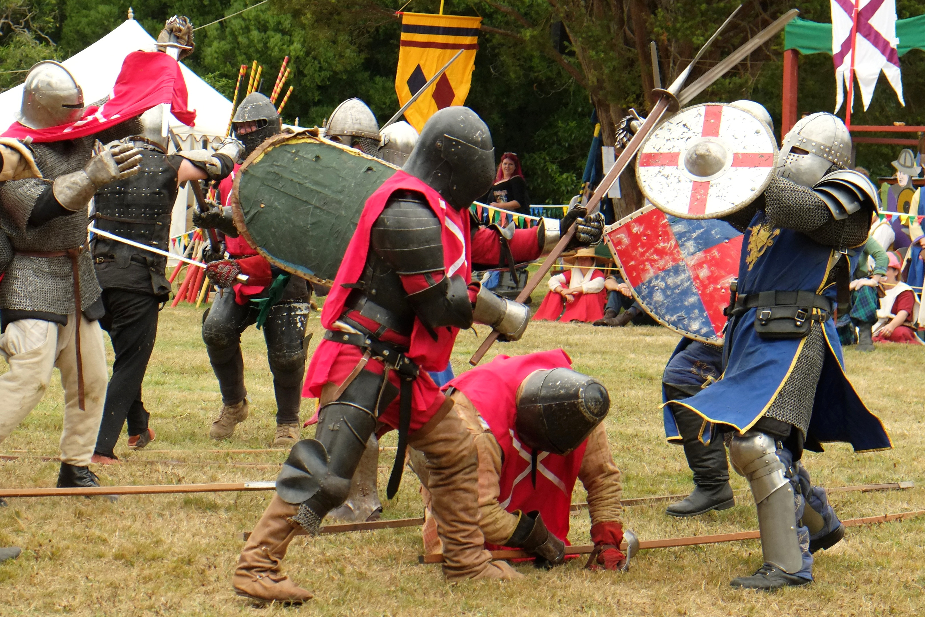 Two knights in full armor fighting (as part of the 7th Harcourt Park World Invitational Jousting Tournament, Harcourt Park, Upper Hutt)